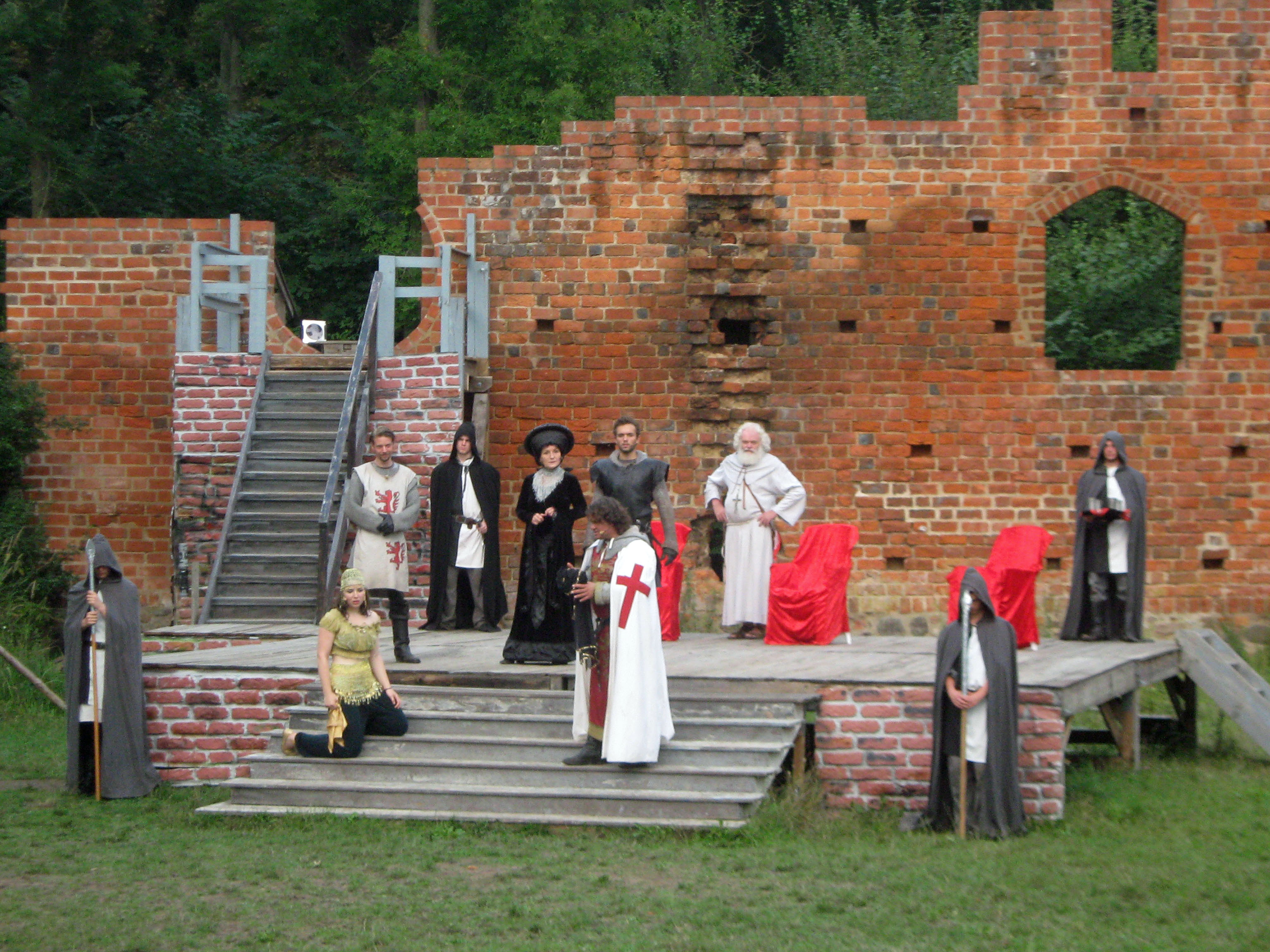 Open air theater Klosterruine Boitzenburg 2010 "Robin Hood - Dacul"